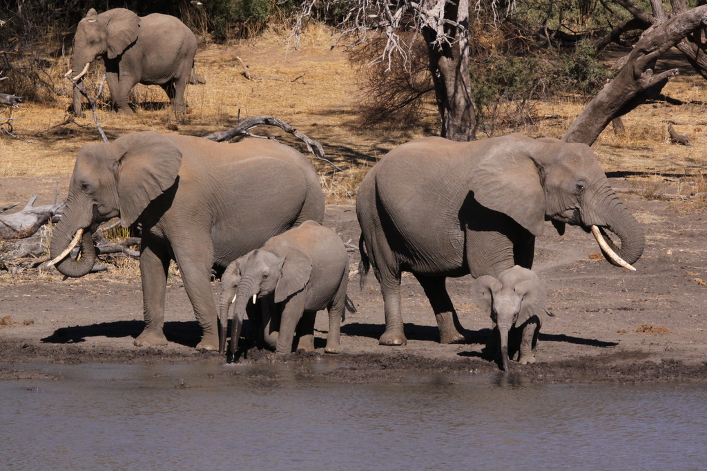 African Elephant, Loxodonta africana - adults and young drinking at waterhole in Mapungubwe